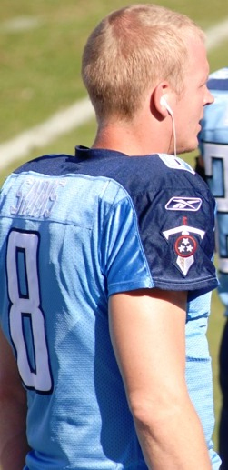 Tennessee Titans quarterback Chris Simms on the sidelines during the November 2, 2008 game against the Green Bay Packers at LP Field.